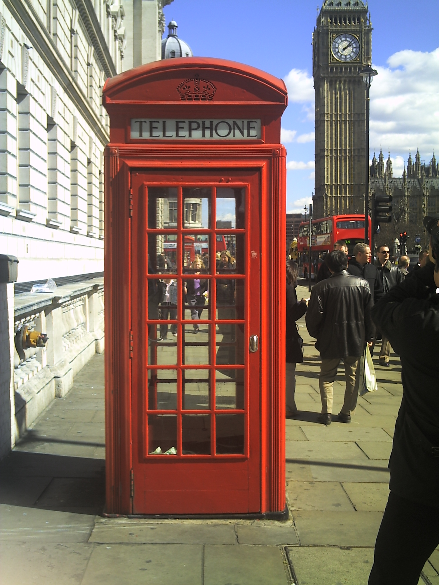 English red K2 telephone box in Parliament Square, London